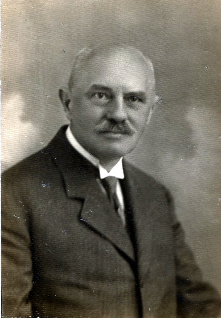 Karoly Bund / Bund Karoly, 1869-1931